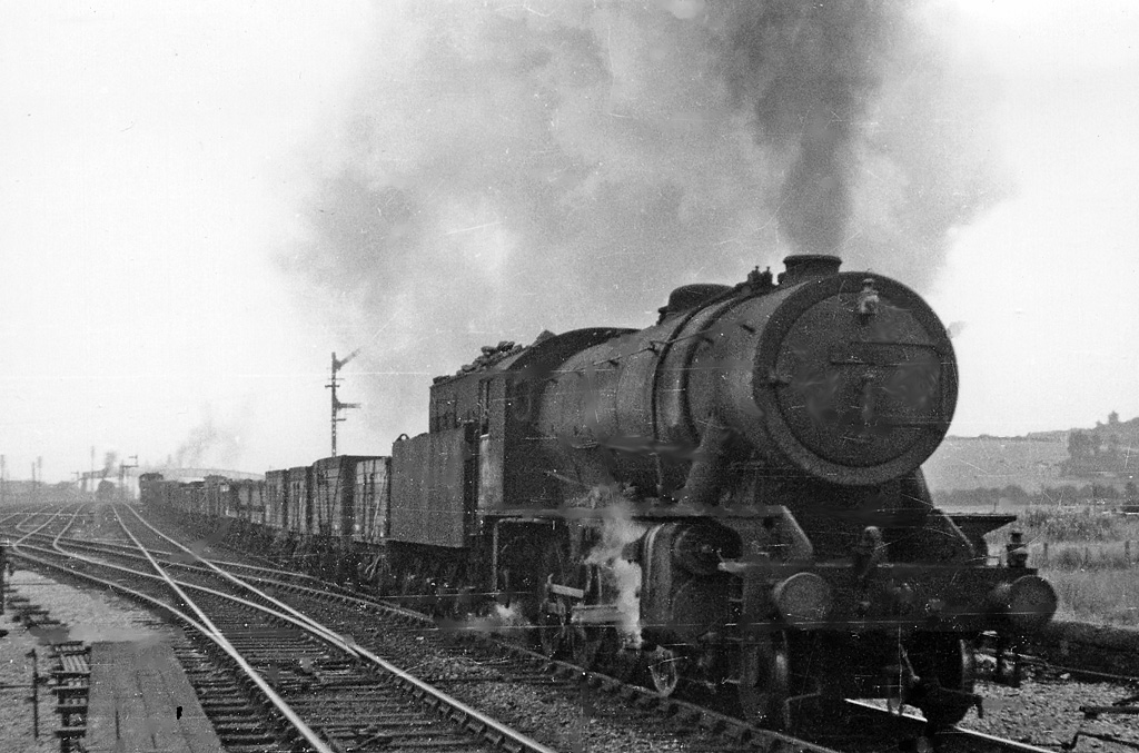 Northbound freight train on the ex-GC main line at Beighton. View SE, towards Nottingham; ex-Great Central main line, Sheffield (Victoria) - Nottingham (Victoria) - London (Marylebone). The train is passing Holbrook Colliery Sidings and approaching Beighton Station: it is a Class F (apparently empties). The locomotive is ex-War Department 2-8-0 No. 90002, one of the 733 taken over by BR after the War.